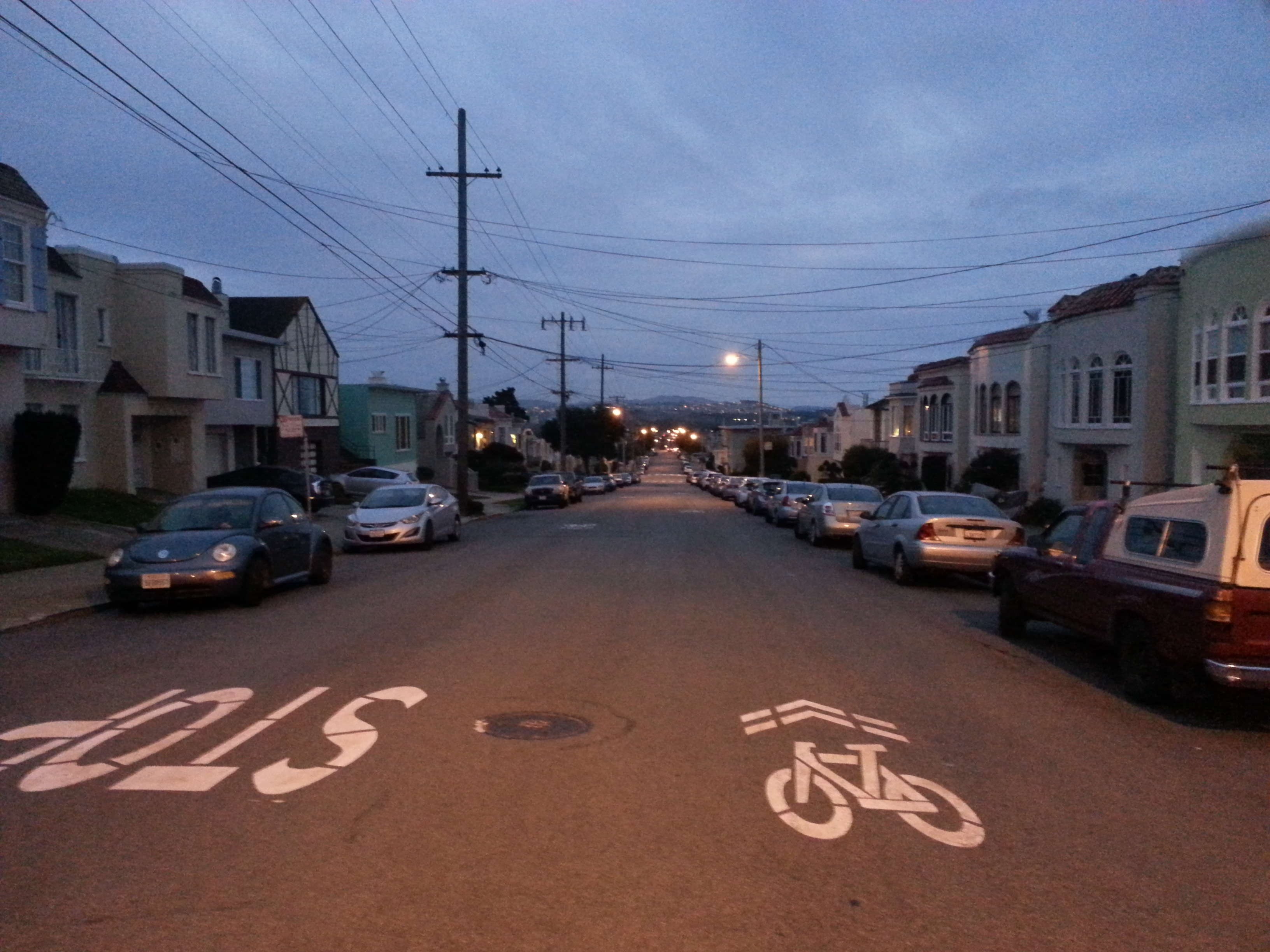 The Parkside neighborhood looking south